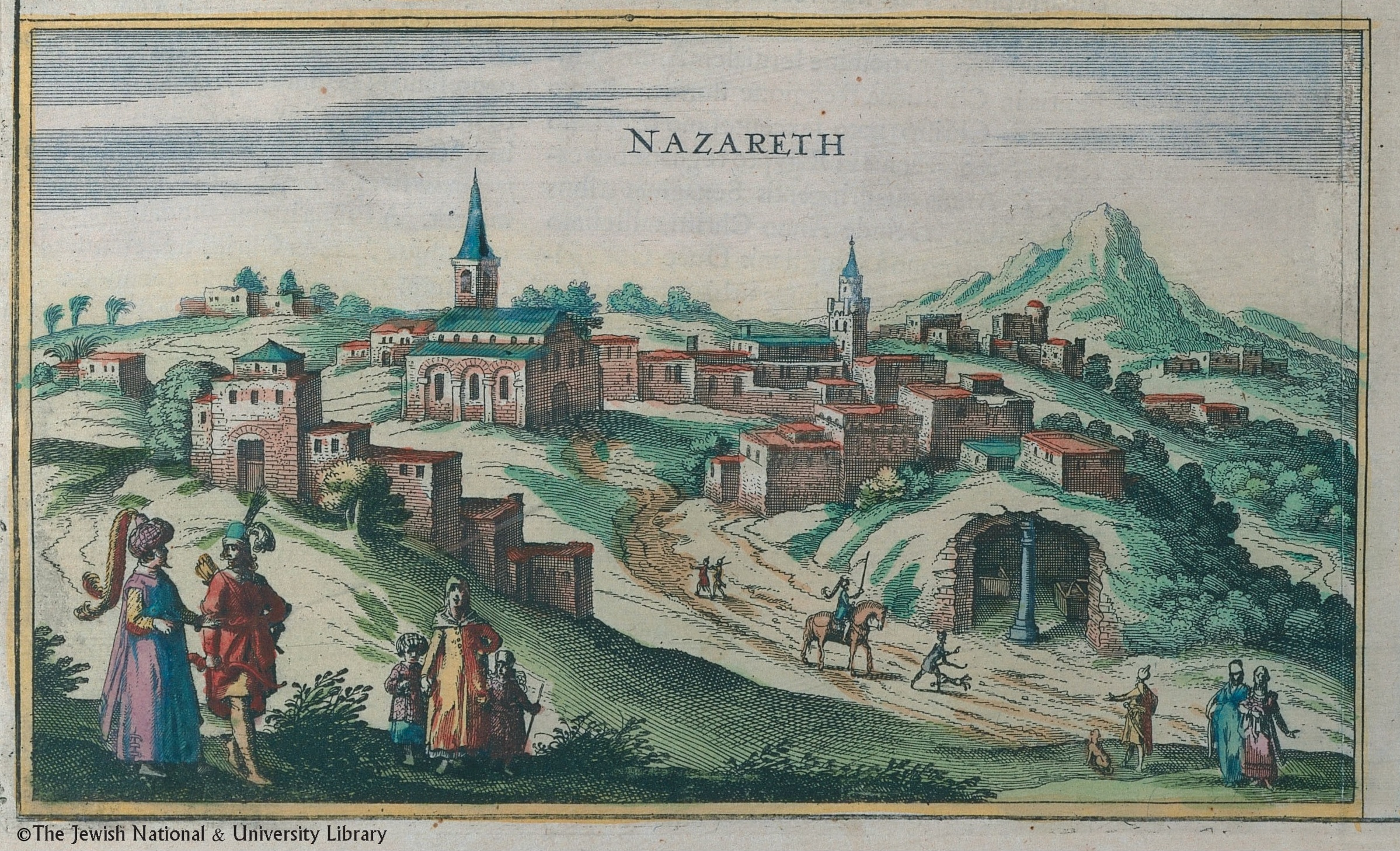 Old map of Nazareth from 1657